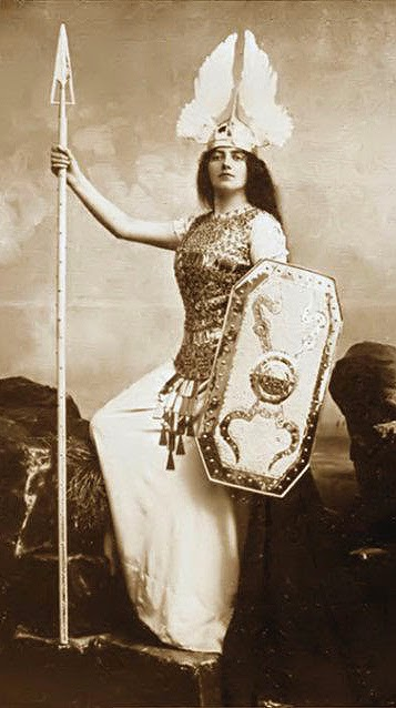 Solomiya Krushelnytska as Brünnhilde in Die Walküre